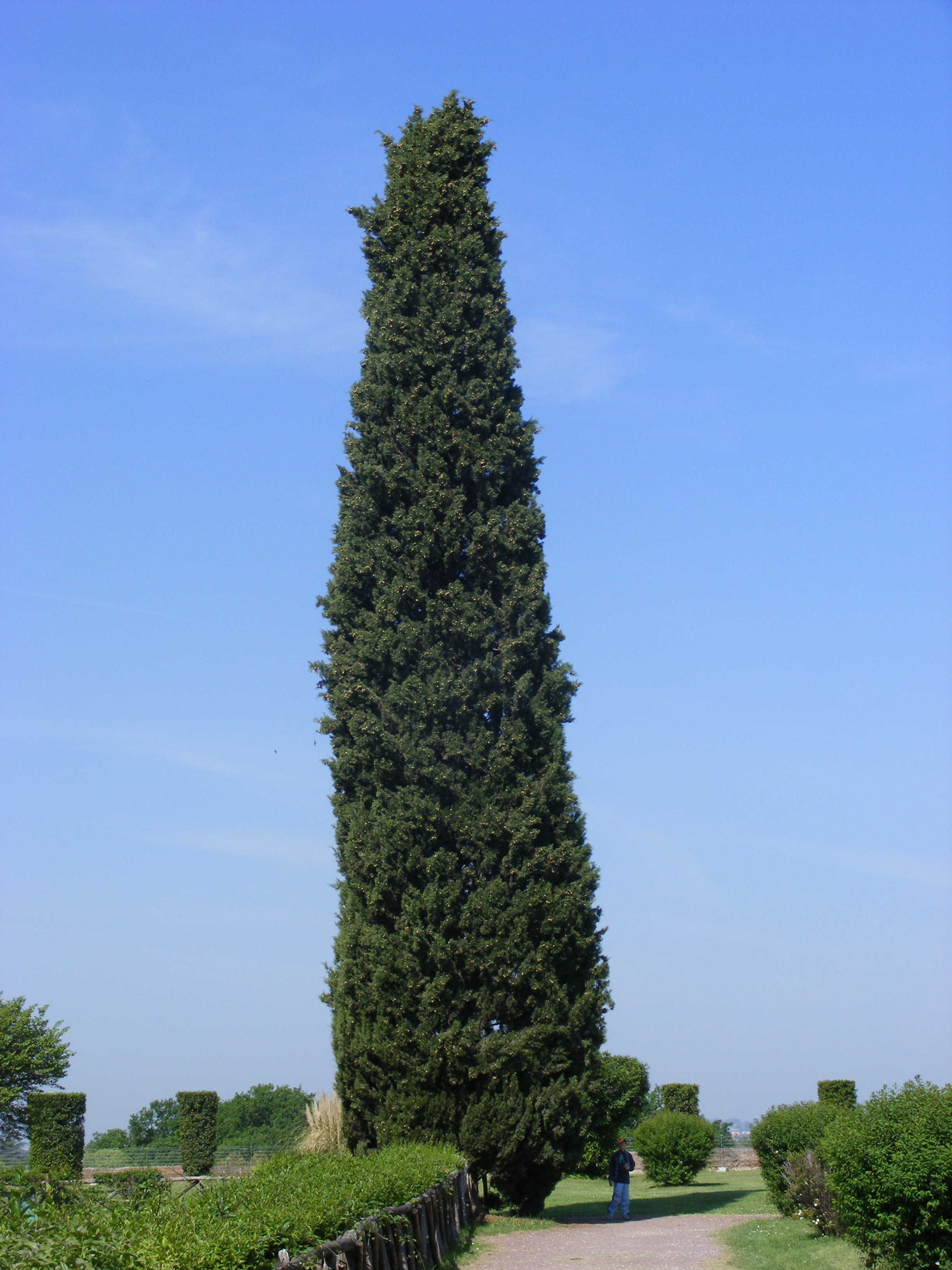 A Mediterranean Cypress in Hadrian's Villa, at Rome